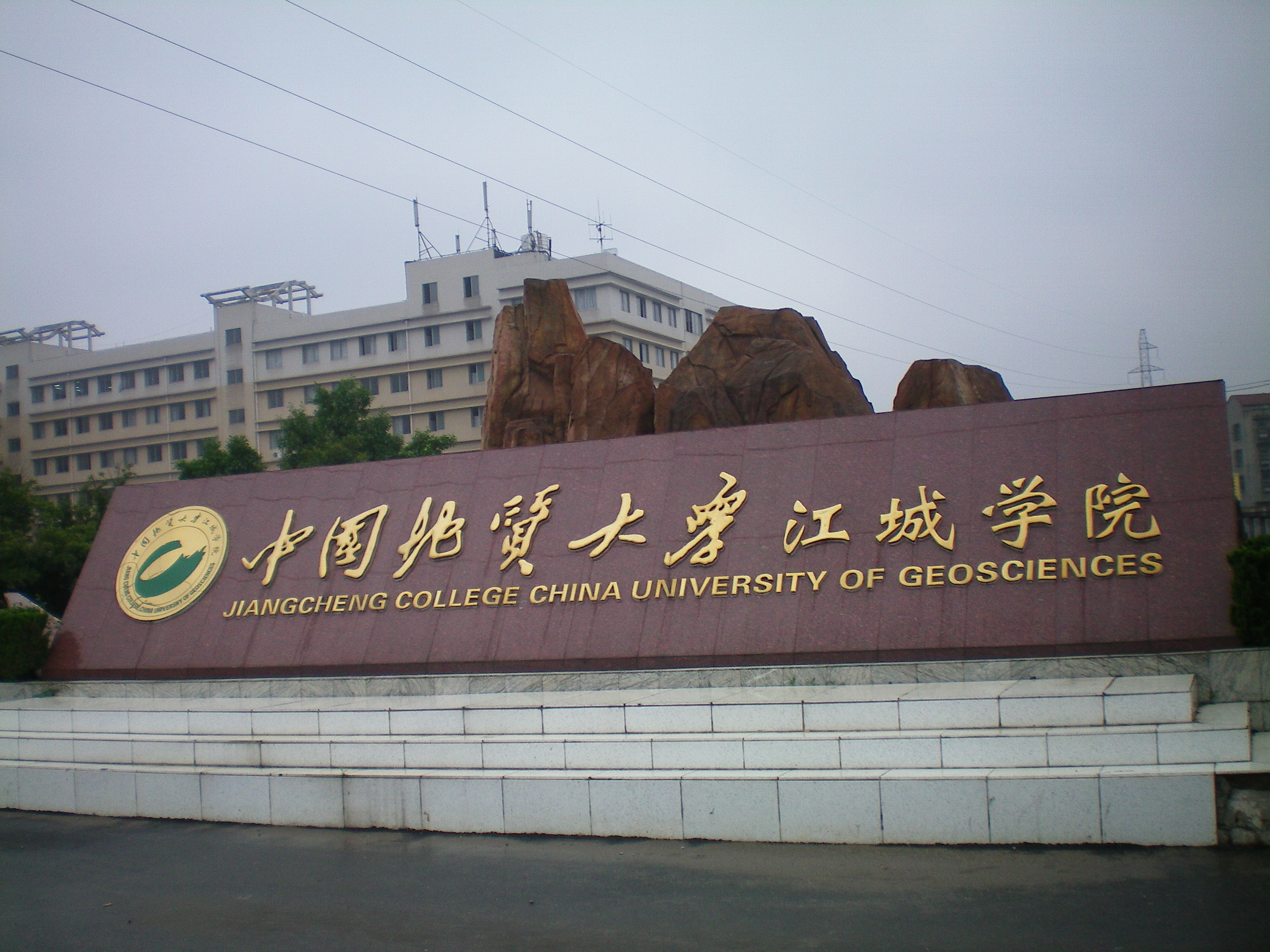 The West Gate of Jiang Cheng College，China University of Geosciences.